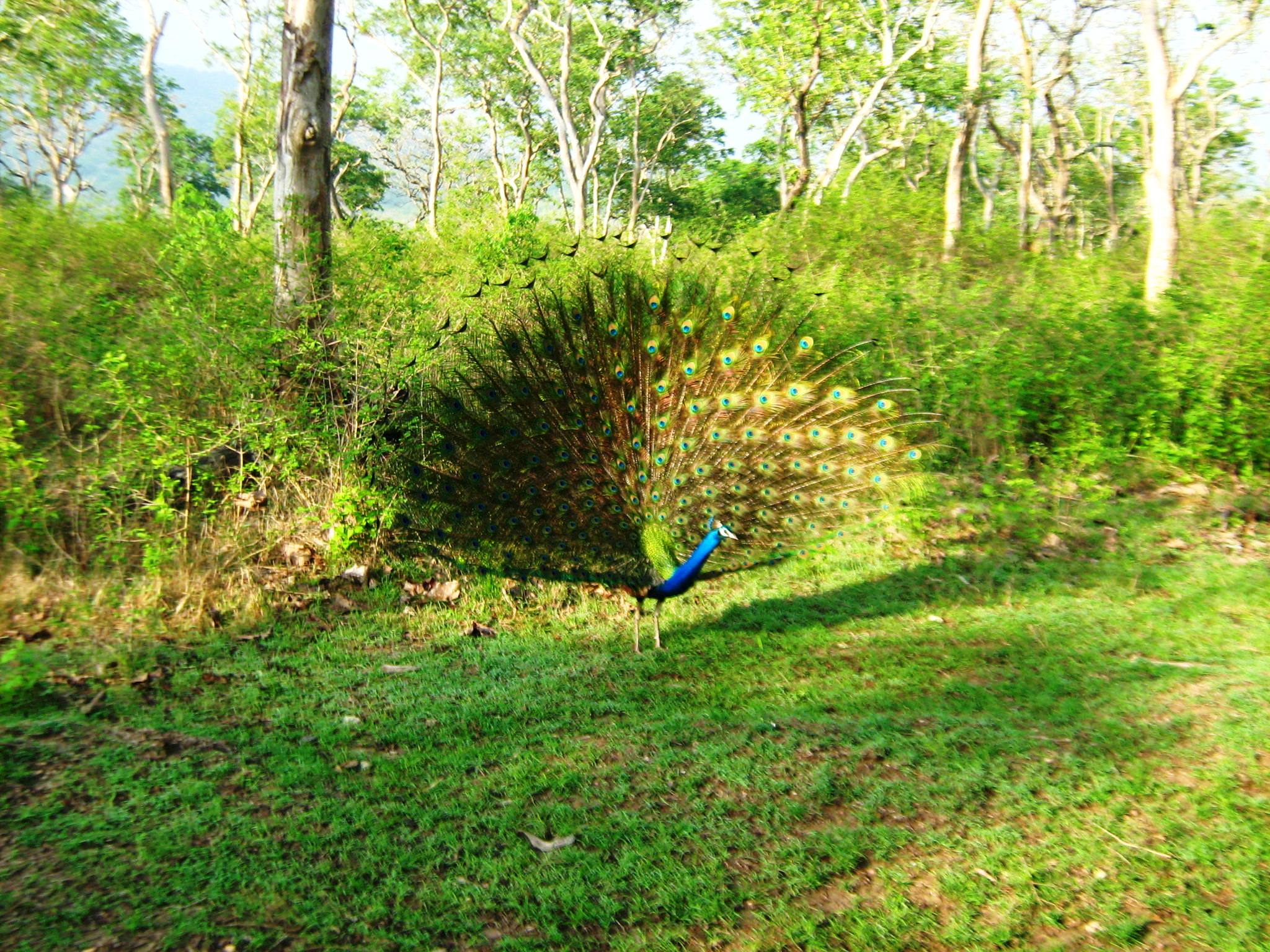 A peacock at the Mudumalai forest, Tamil Nadu, India